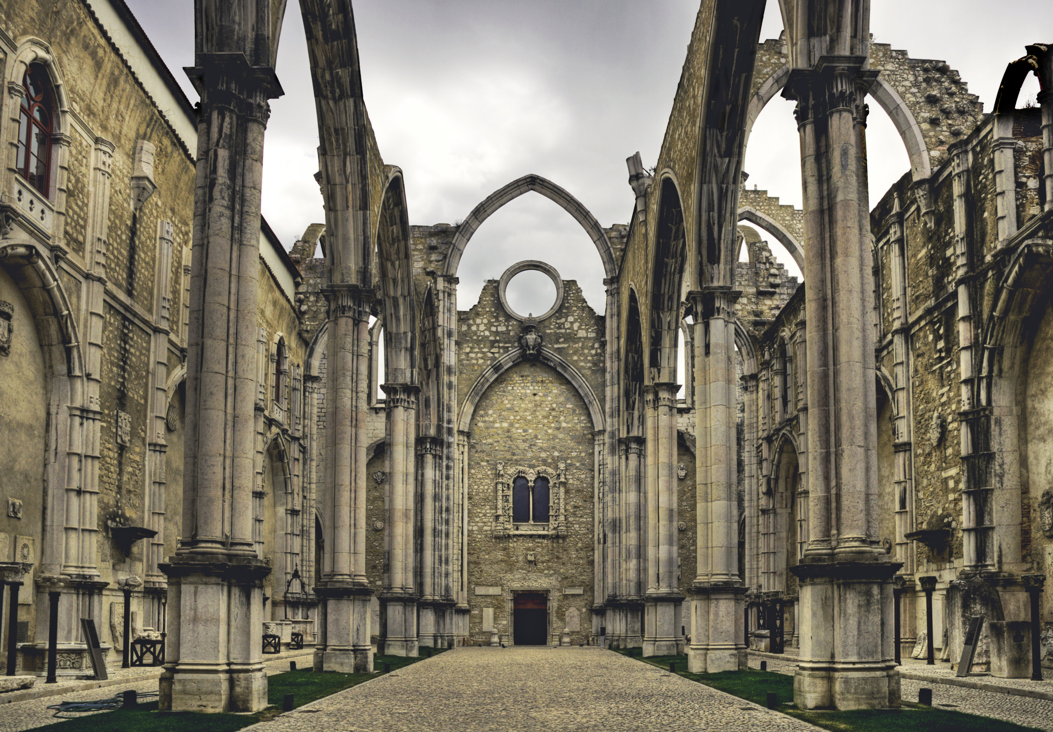 Couvent of Carmo, Lisbon